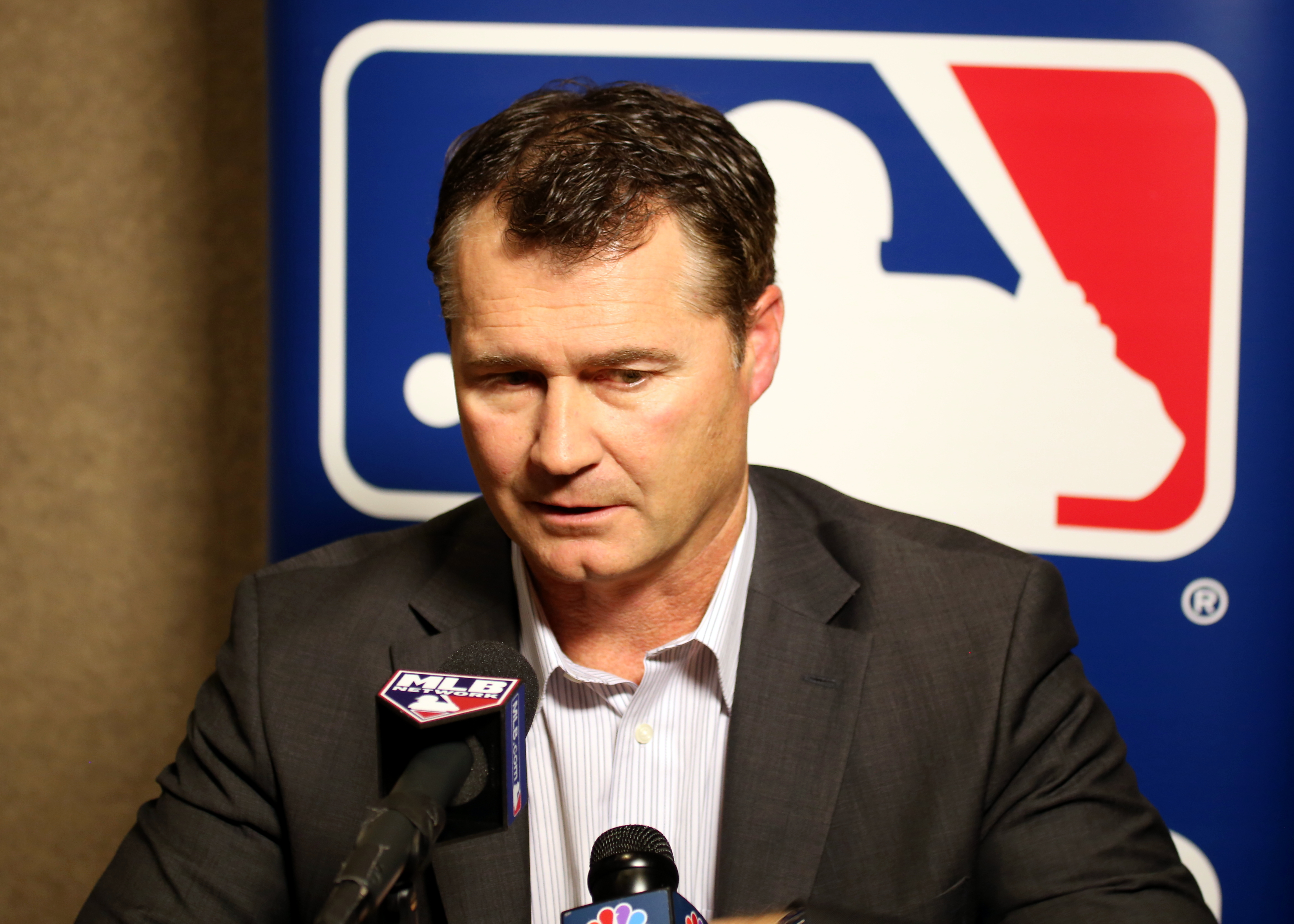 Mariners skipper Scott Servais talks to the media at the #WinterMeetings.